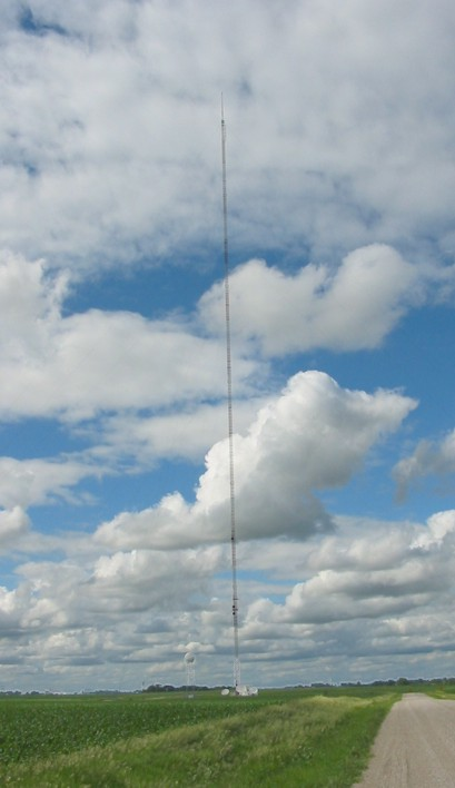 The Des Moines Hearst-Argyle Television Tower Alleman.